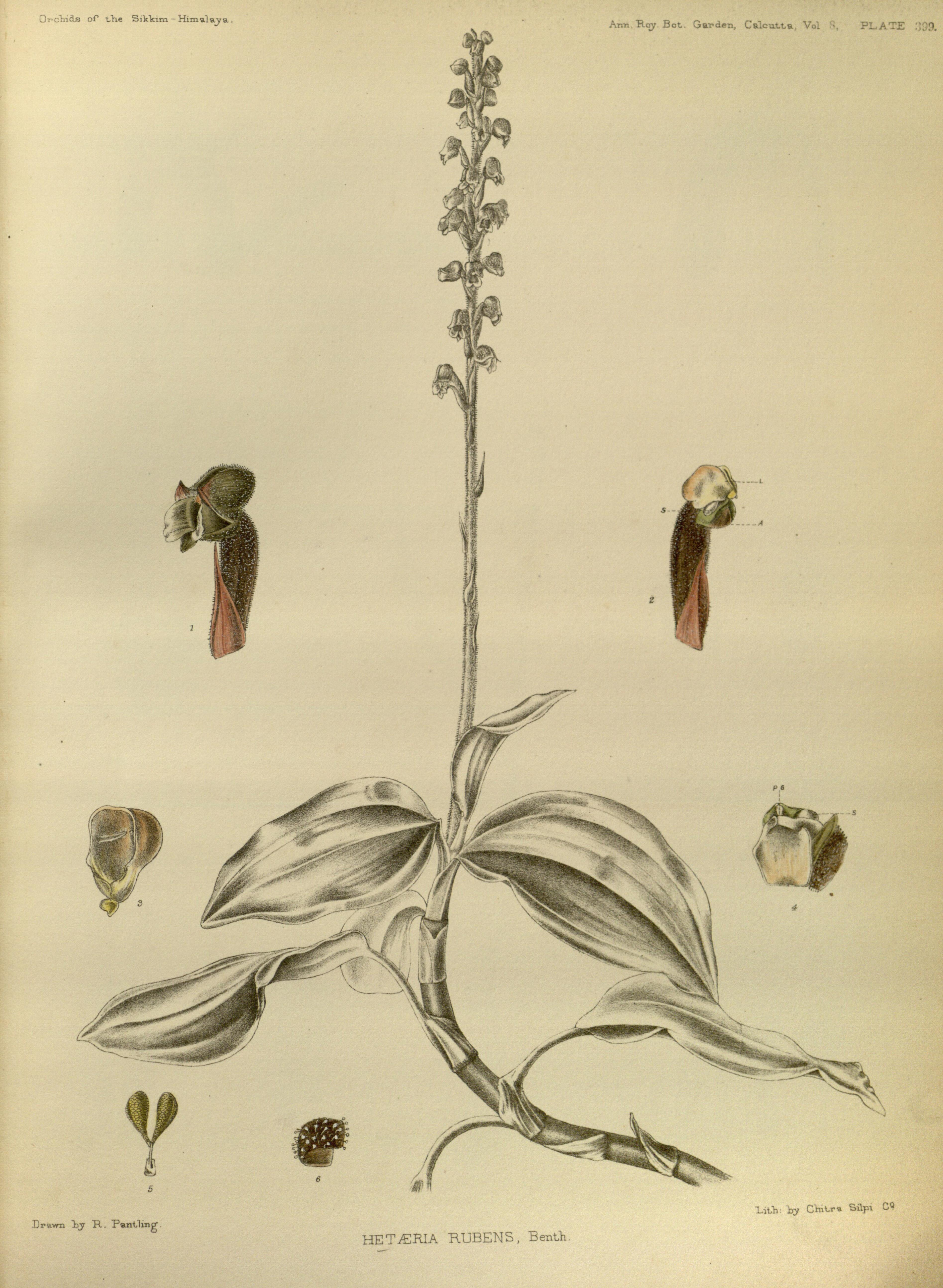 Illustration of Hetaeria affinis (as syn. Hetaeria rubens)